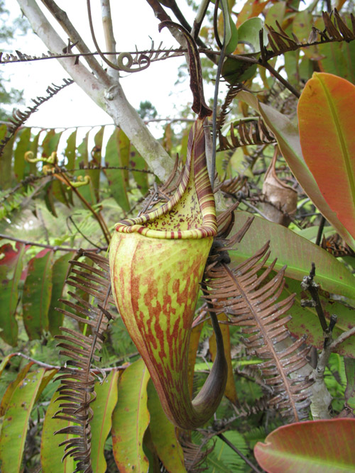 N.fusca (Kinabalu)